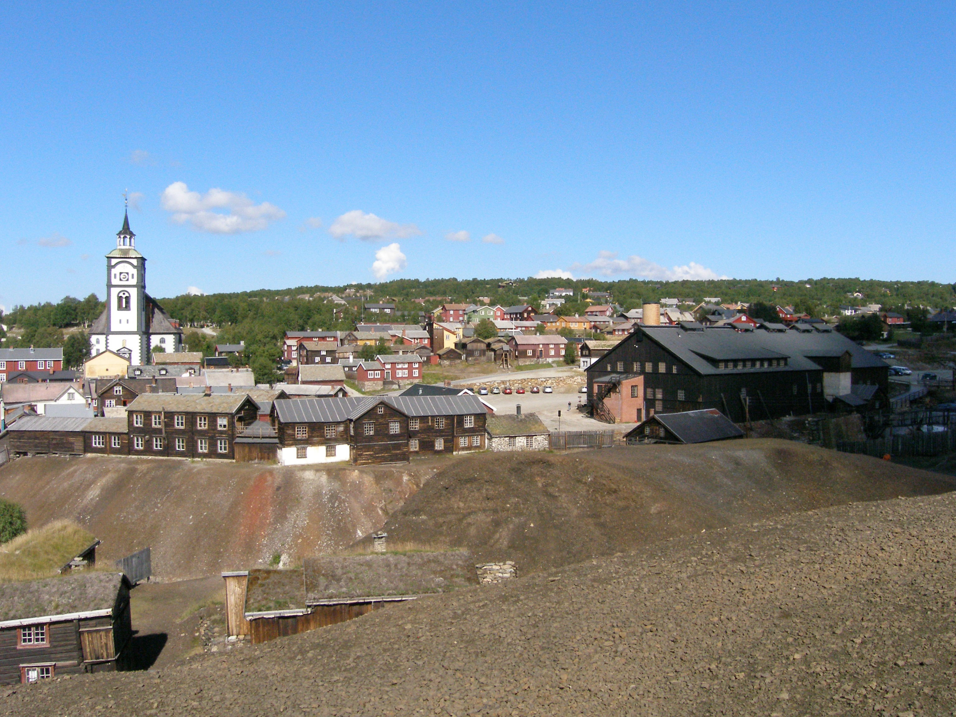 View of Røros from the slag heaps. The large building on the right is the former forge (smelthytta), now the Røros museum.